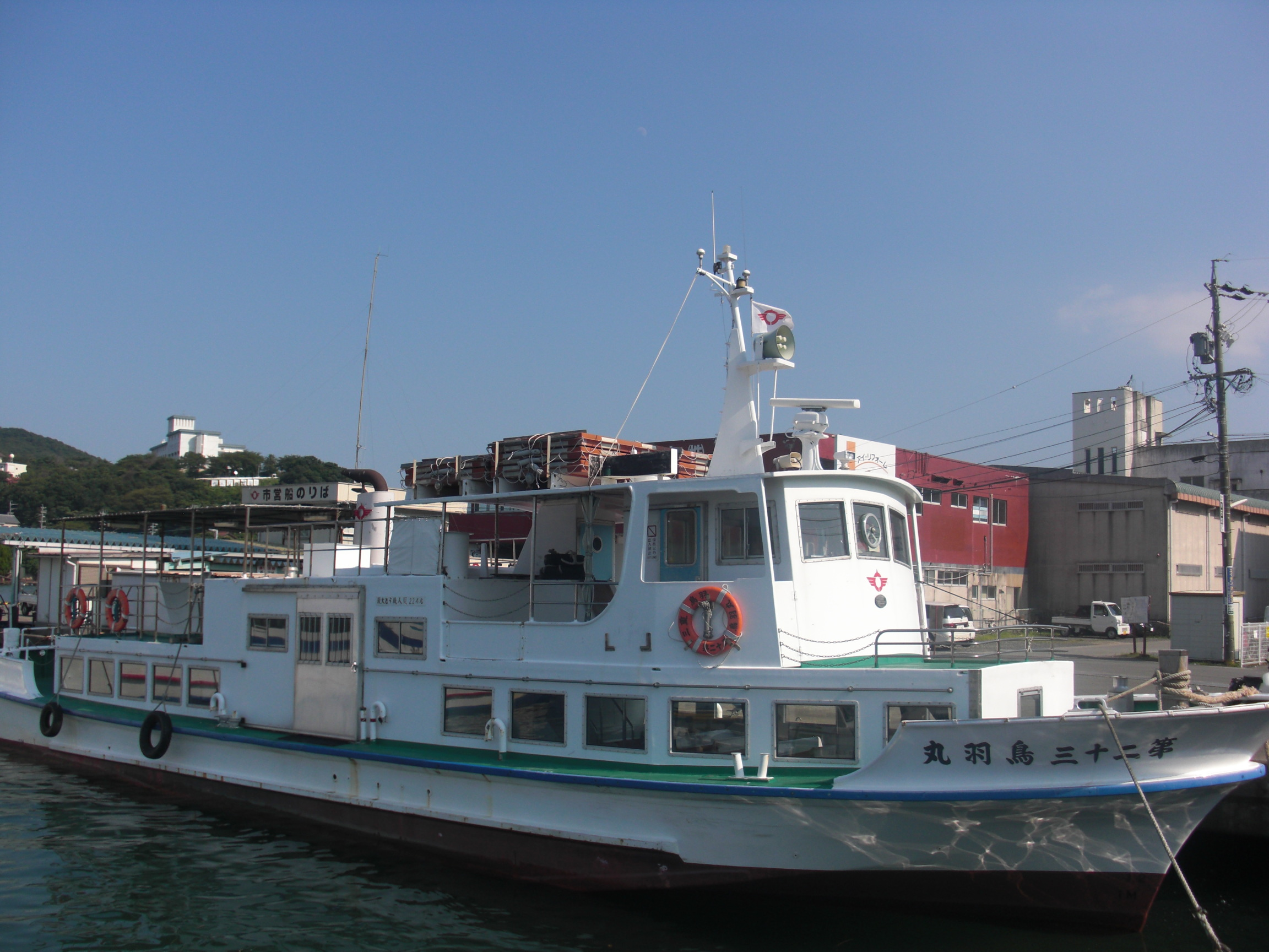 This is the Toba-shiei-Teikisen's ship "No. 23 Tobamaru".